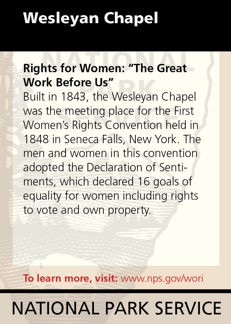 Rights for Women: “The Great Work Before Us” Built in 1843, the Wesleyan Chapel was the meeting place for the First Women’s Rights Convention held in 1848 in Seneca Falls, New York. The men and women in this convention adopted the Declaration of Sentiments, which declared 16 goals of equality for women including rights to vote and own property.